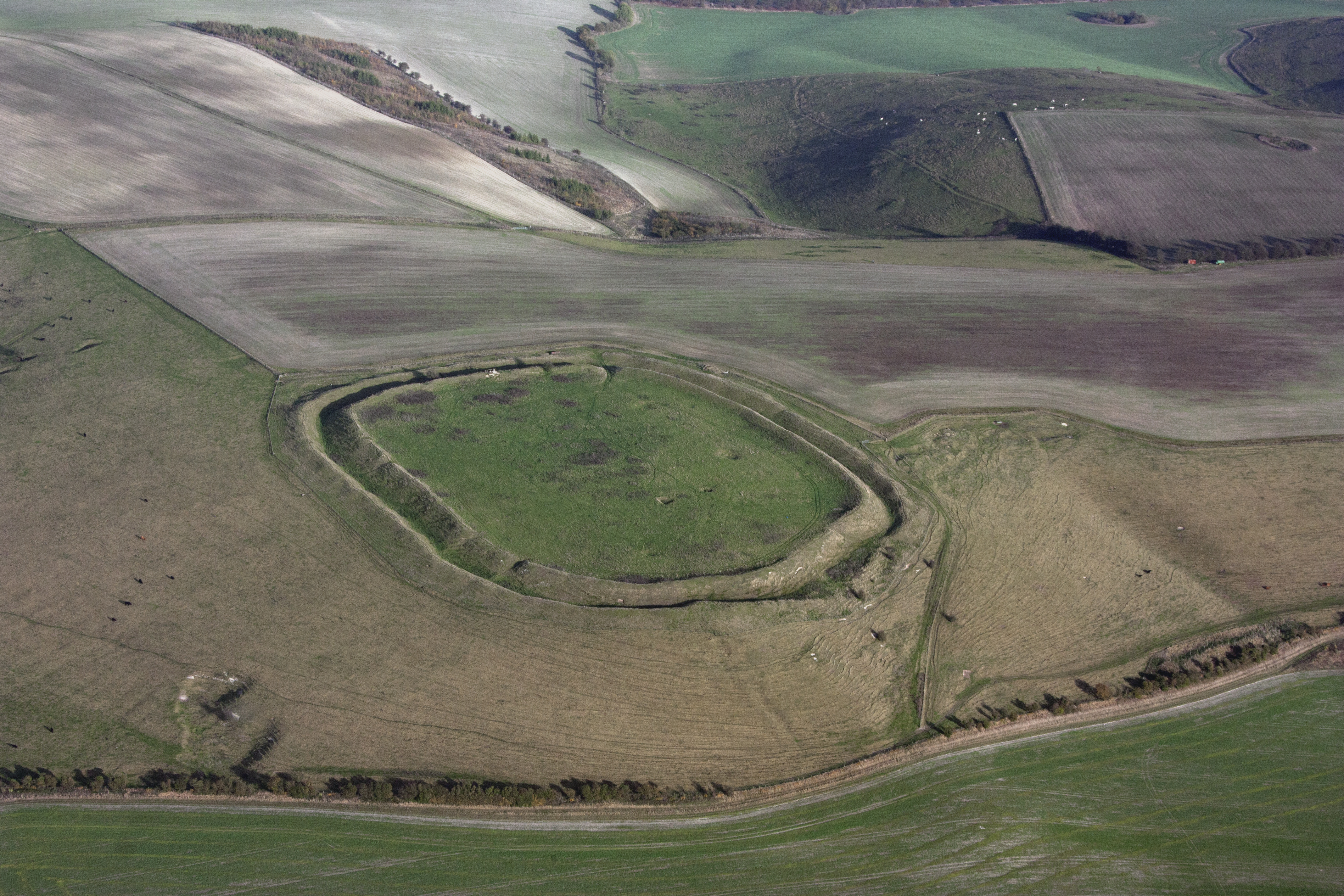 Liddington Castle Wikidata has entry Q1823620 with data related to this item. Atlas of Hillforts number 0388